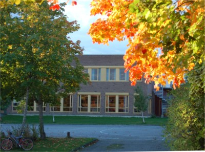 Hallset Skole